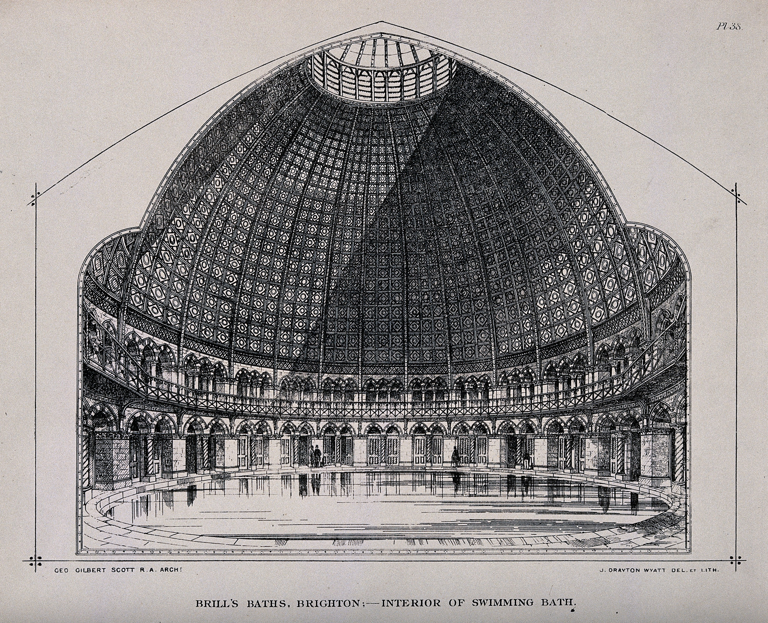 Panoramic view of Brill's swimming bath, Brighton. Lithograph by J. Drayton Wyatt after himself after G.G. Scott. Iconographic Collections Keywords: J. Drayton Wyatt; George Gilbert Scott